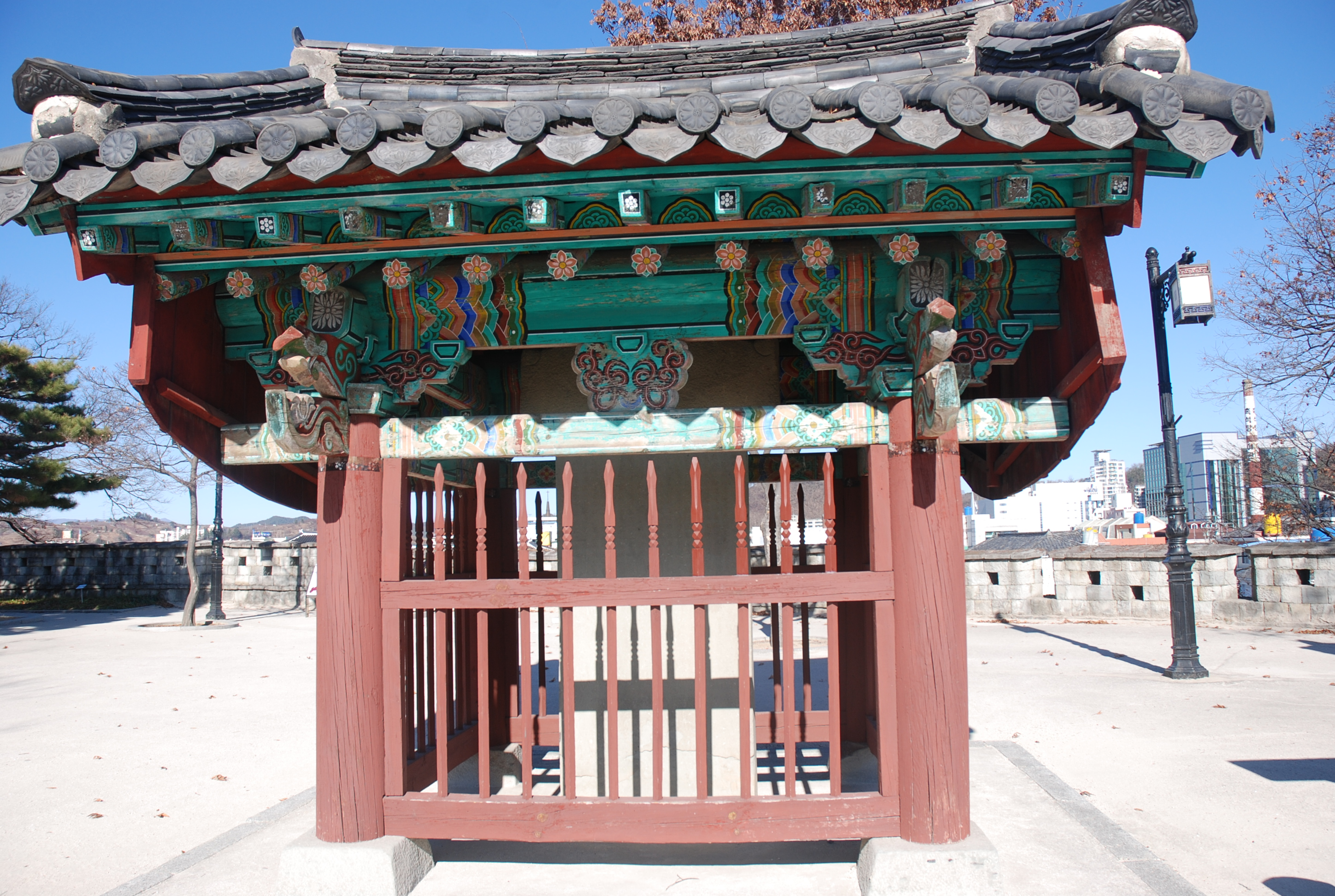 Kim Si Min, Victory Monument in the Jinju Castle bulit in 1619.